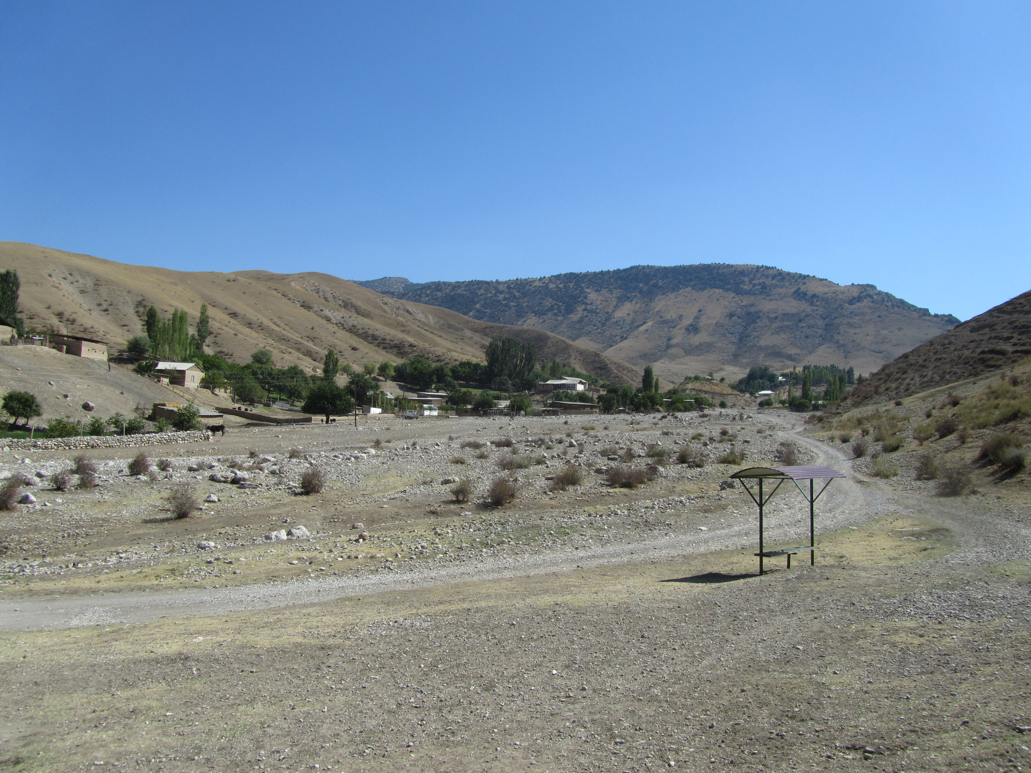 A general view of the village of Dargaz. Leilek District, Kyrgyzstan.